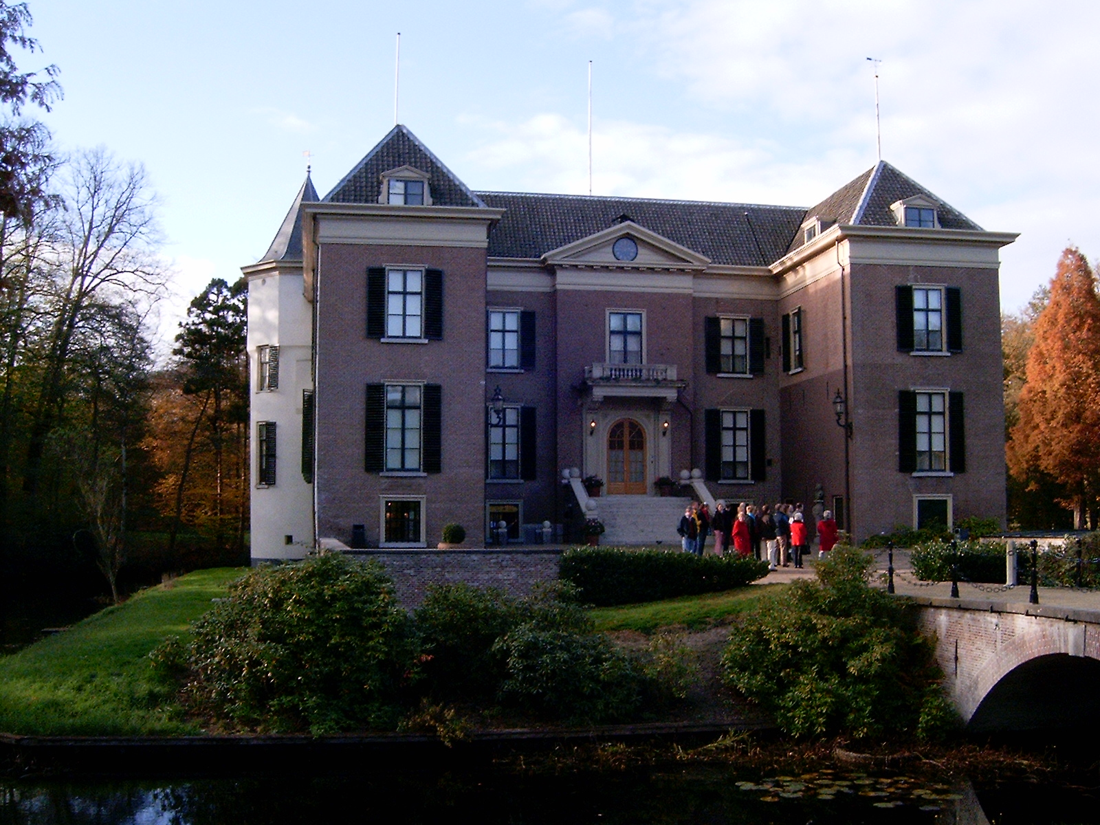 House of Doorn